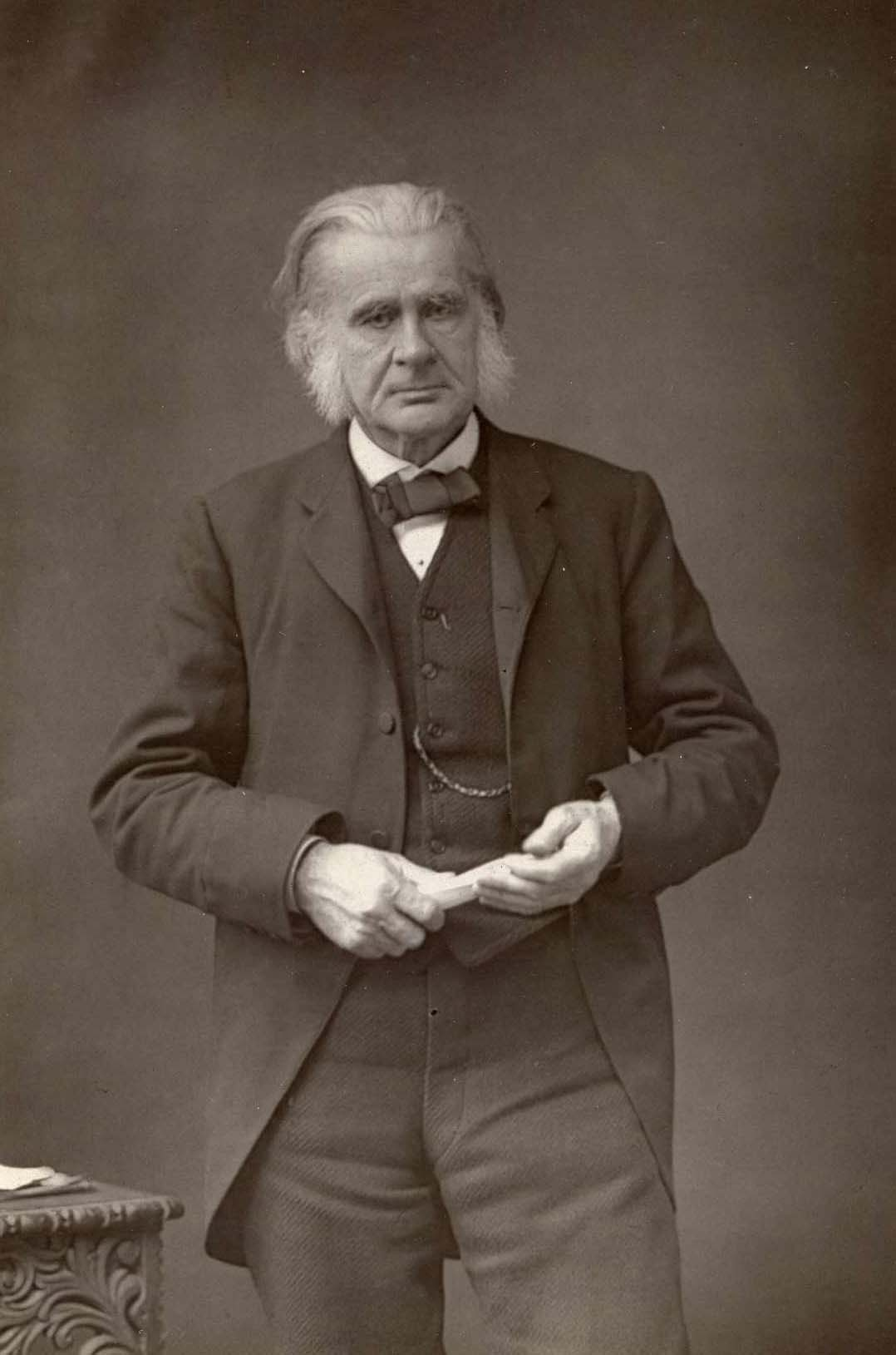 Thomas Henry Huxley (1825-1895) 1891.